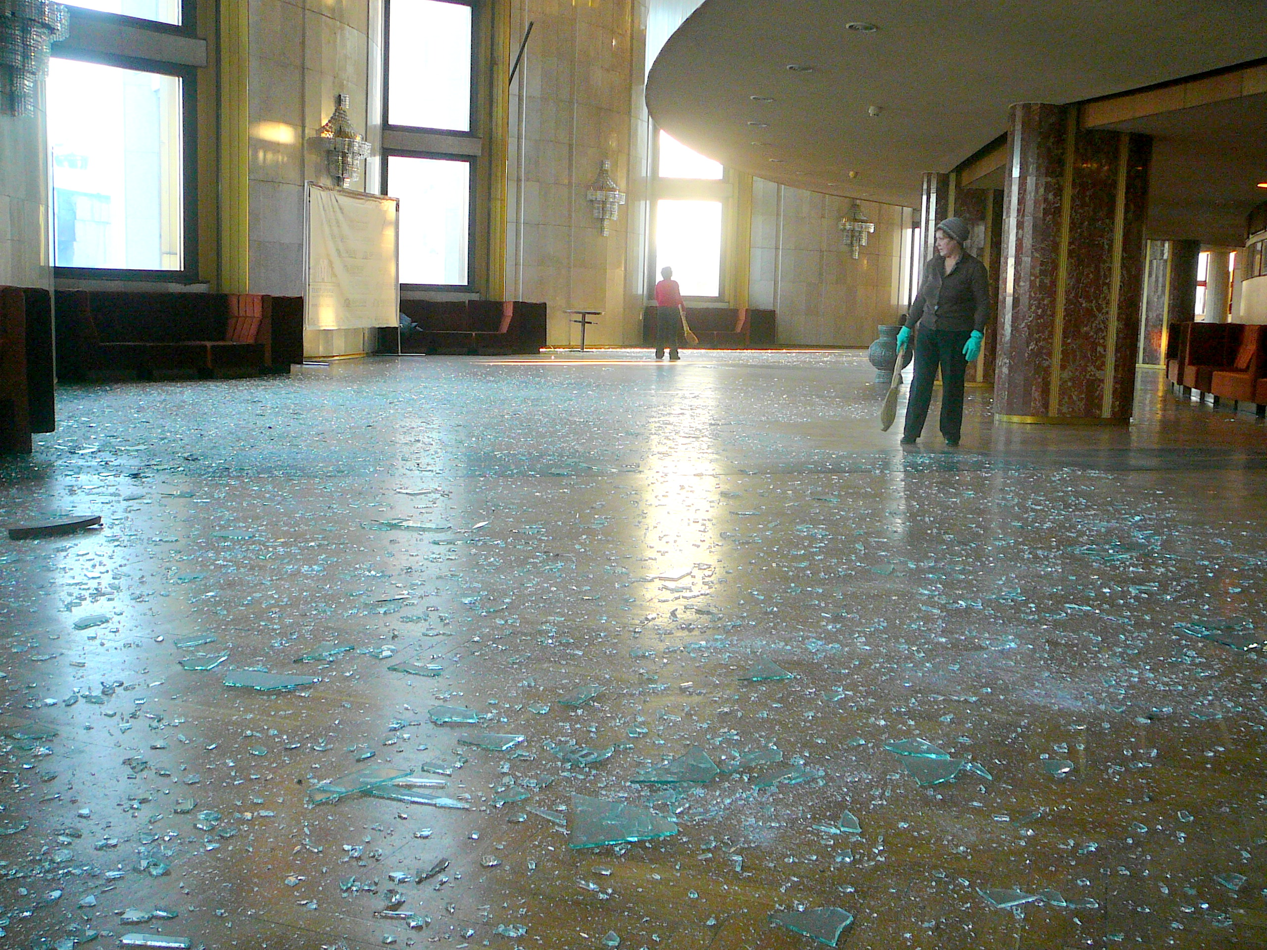 w:2013 Russian meteor event consequences in Chelyabinsk Drama Theatre